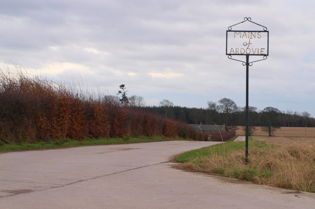 Mains of Ardovie Farm Road